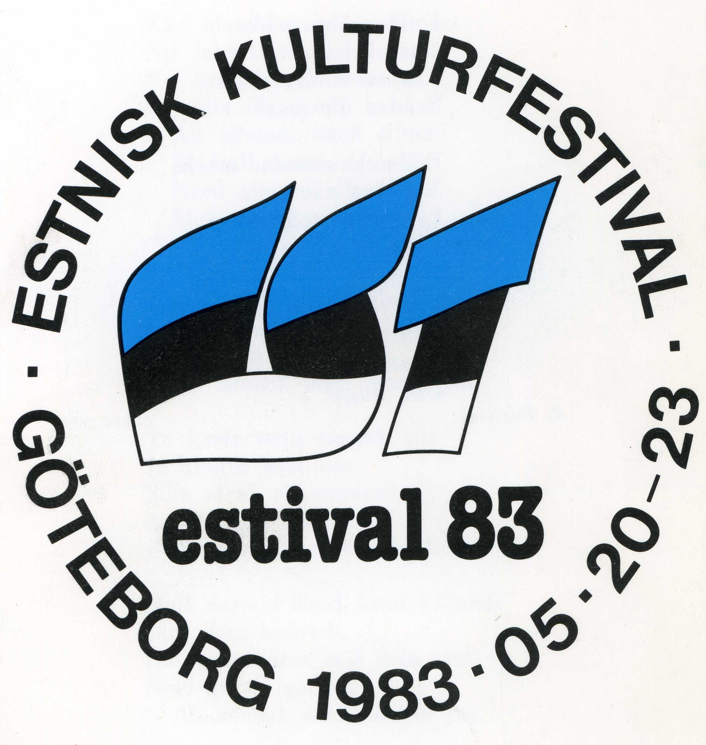 Lehes, Toomas, Aho Rebas (toim.). Estival 83. Kava. Program. Eesti Päevad Rootsis. Estnisk Kulturfestival. Göteborg 1983, 20.–23.05. Lindome: Kompendiet, 1983.